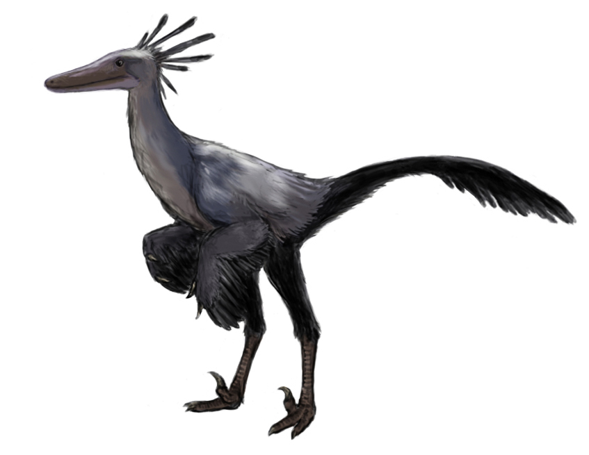 Restoration of Byronosaurus jaffei. Based on diagram by Jaime Headden.[1]